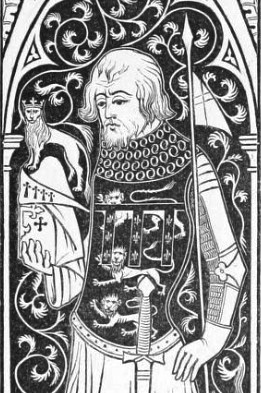 Henry Plantagenet Earl of Leicester